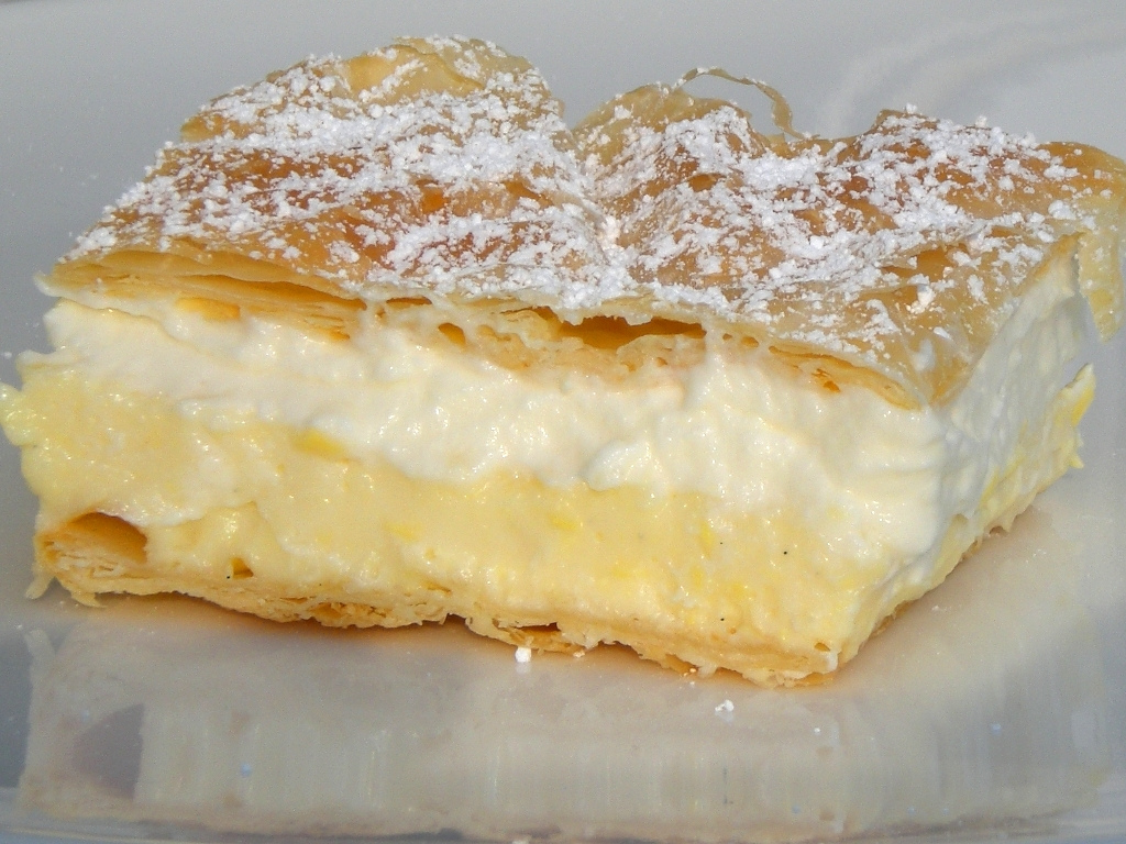 Bled Cream Cake